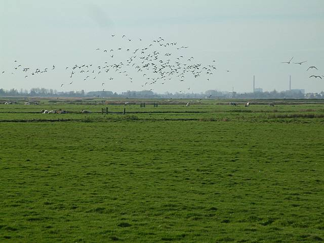 Pasture birds.